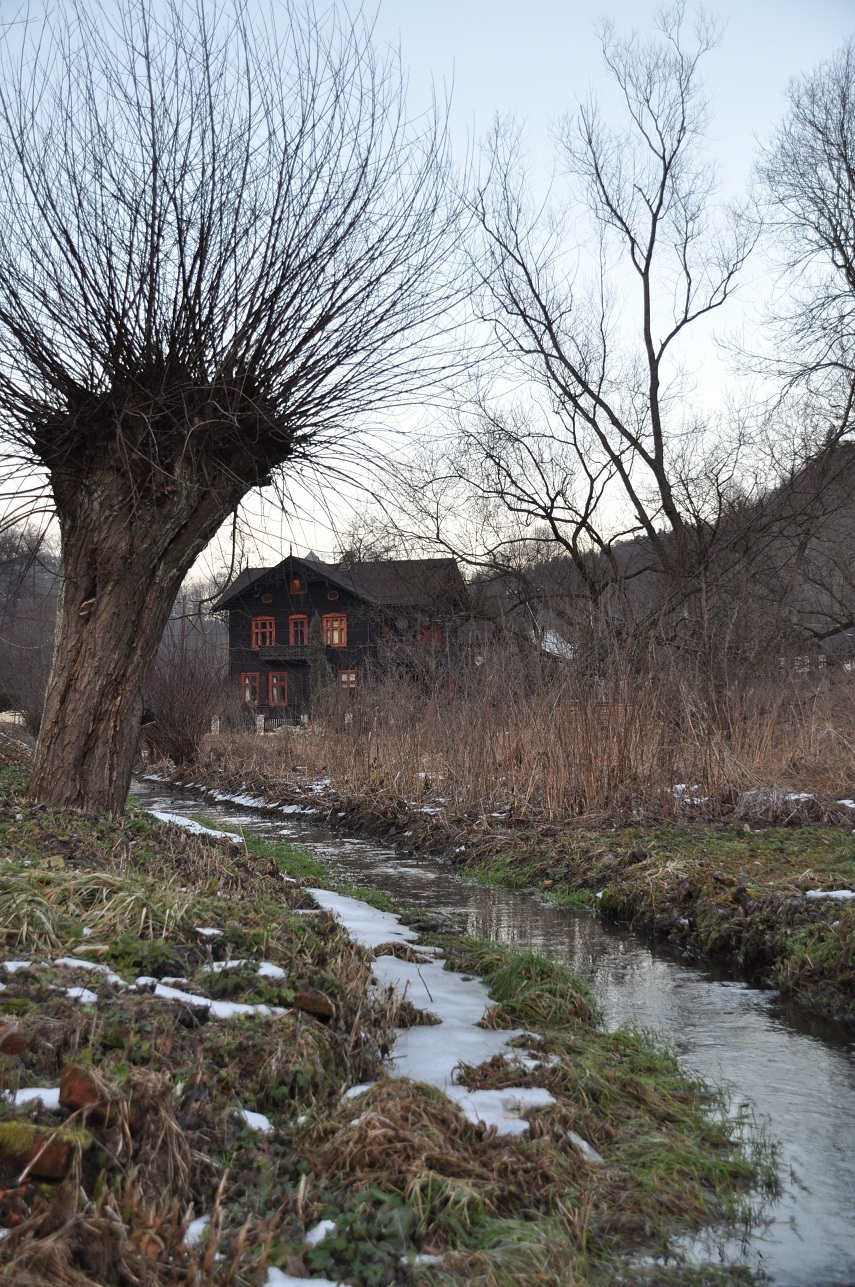 Ojcow, Southern Poland